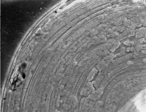 Ooid: lammelae (close up)